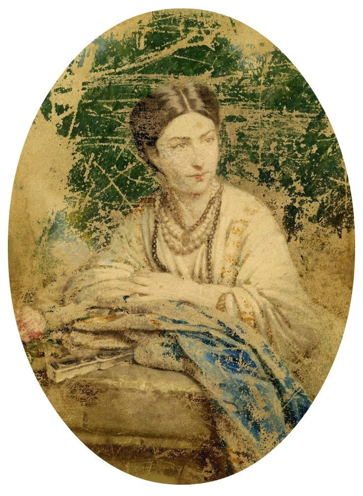 Elizabeth Orbeliani-Boryatinskaya (1833-1899), daughter of Dimitri Vahtangis dze Orbeliani (1806 -1882) and Maria Luarsabis asuli Orbeliani (1812-1866)